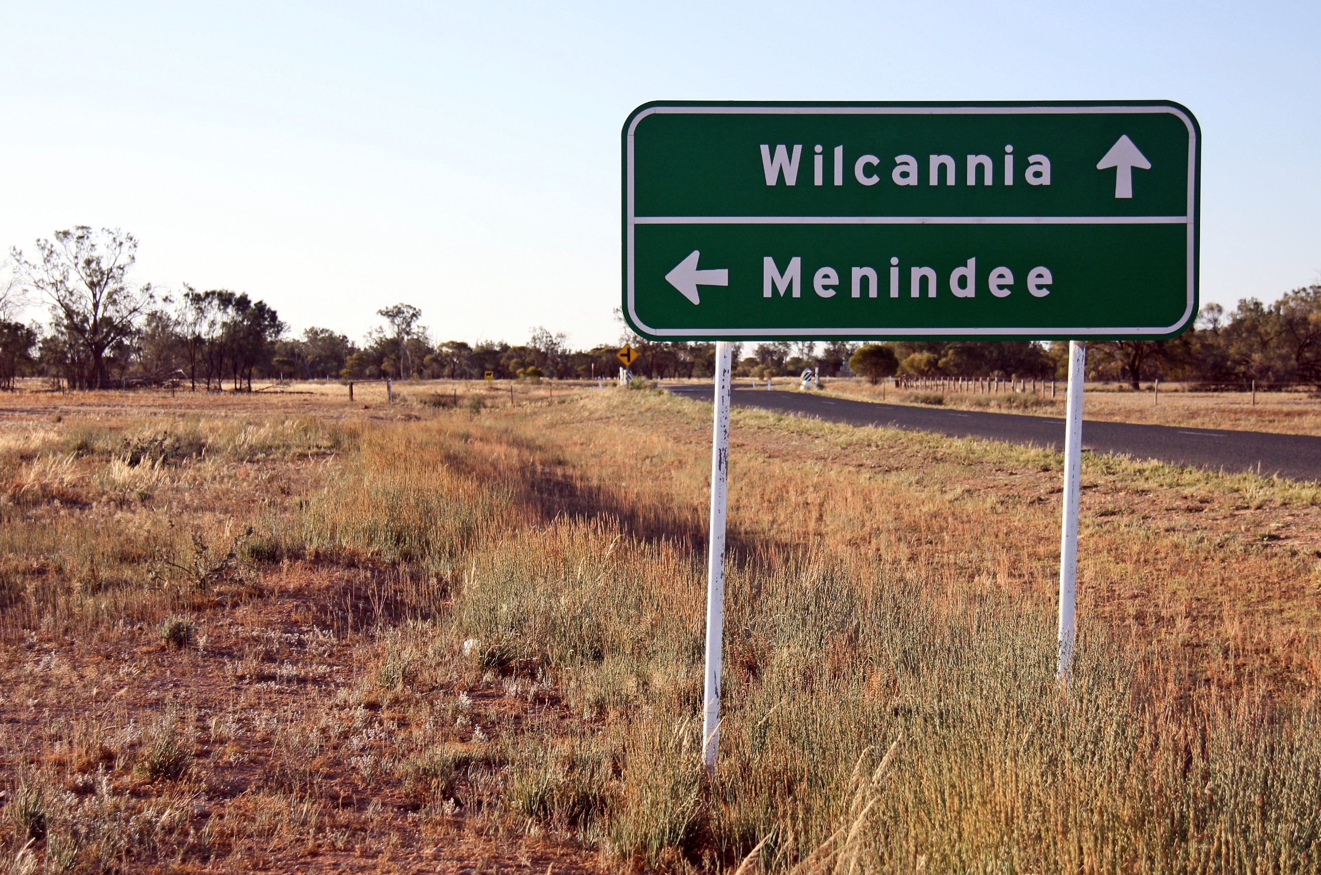 Road sign next to the Cobb Highway near the Ivanhoe-Menindee Road intersection.